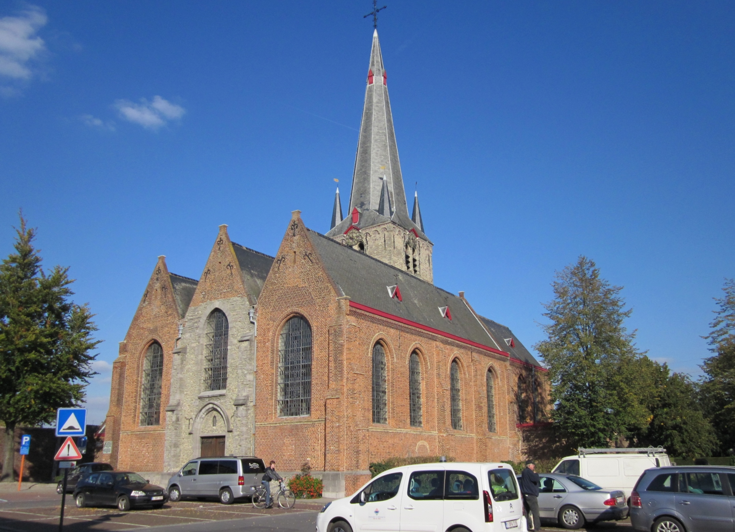 Saint Peter church, Emelgem (Izegem), Belgium